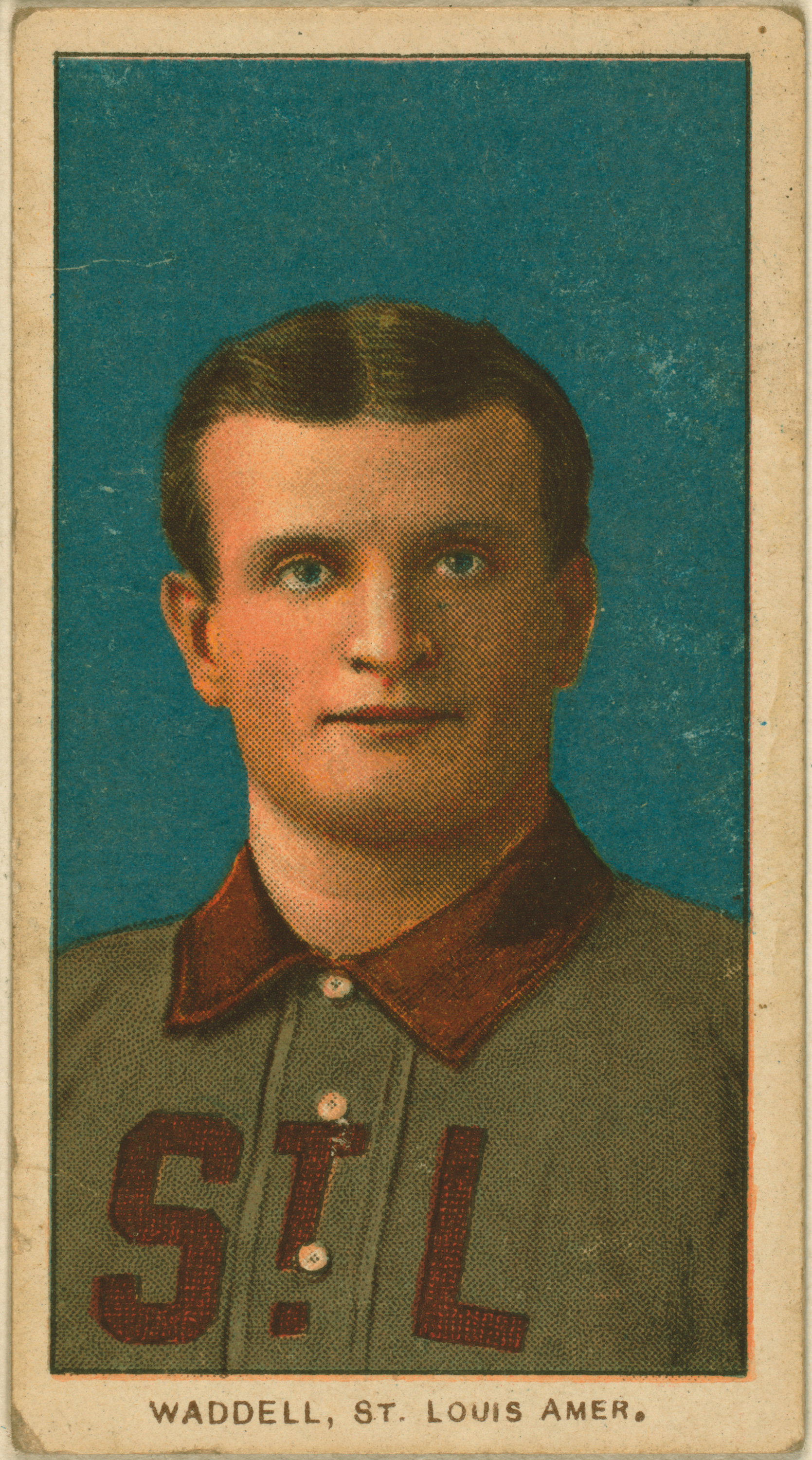 Rube Waddell pitcher baseball card. Issued 1909 by American Tobacco Company